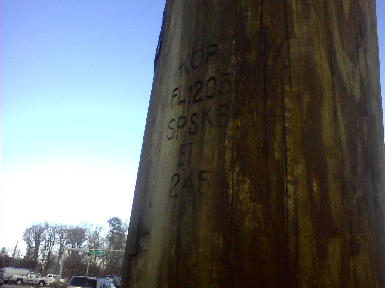 A branding on a power pole in Salisbury, Maryland, United States.